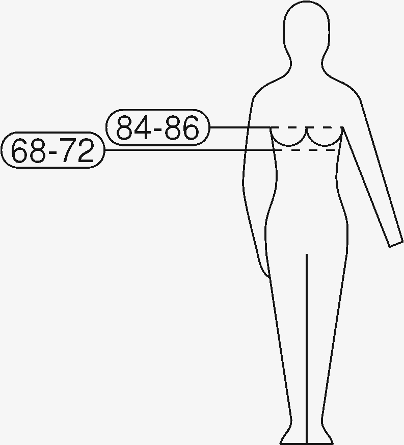 European Standard (EN 13402) for bra sizes with primary and secondary measurements. The pictogram shows a bra in size 70B.